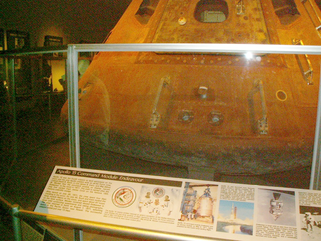 Apollo 15 Command Module "Endeavour" displayed at the National Museum of the United States Air Force.